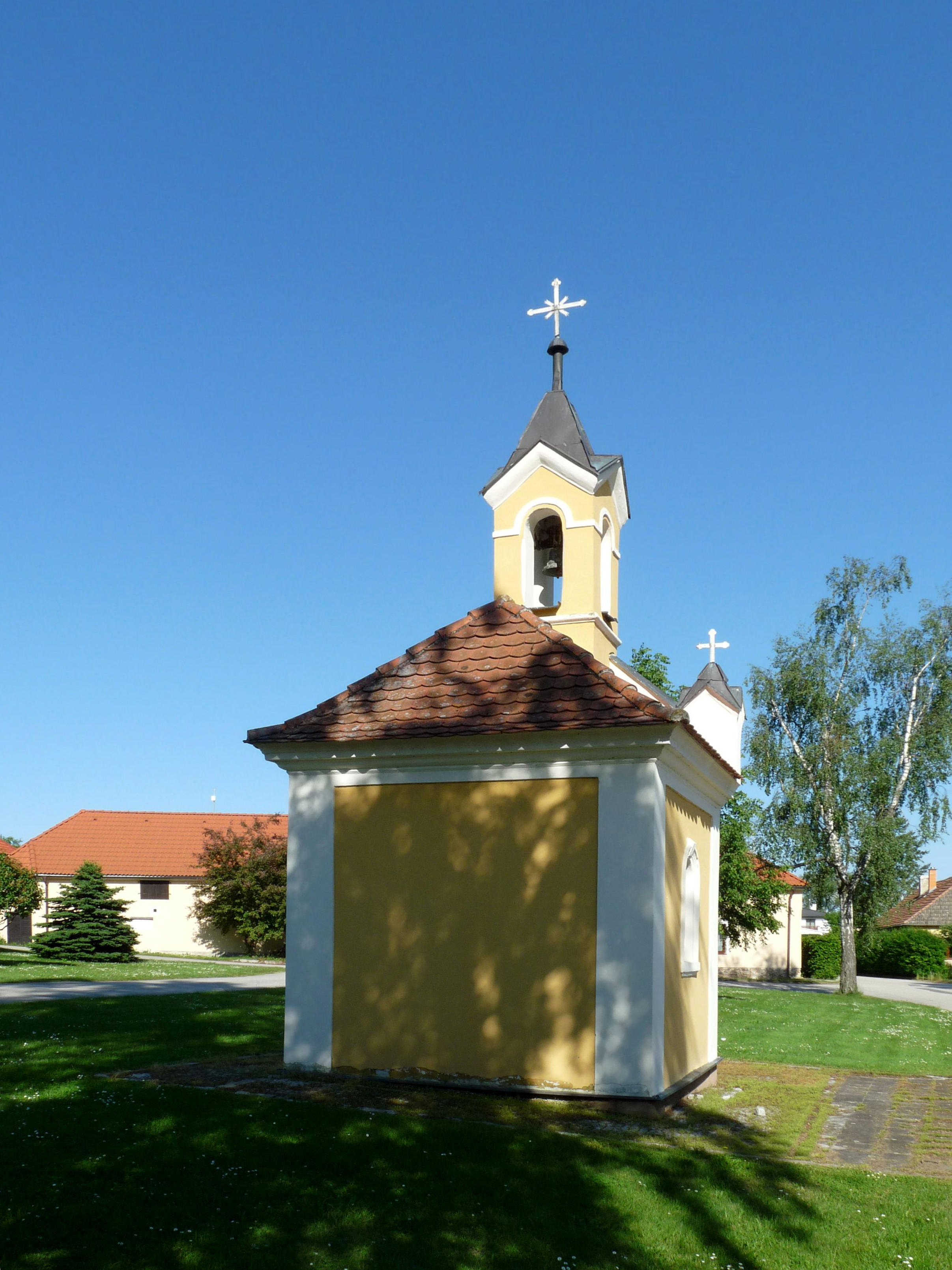 Chapel in the village of Lékařova Lhota, part of the municipality of Sedlec, České Budějovice District, South Bohemian Region, Czech Republic.